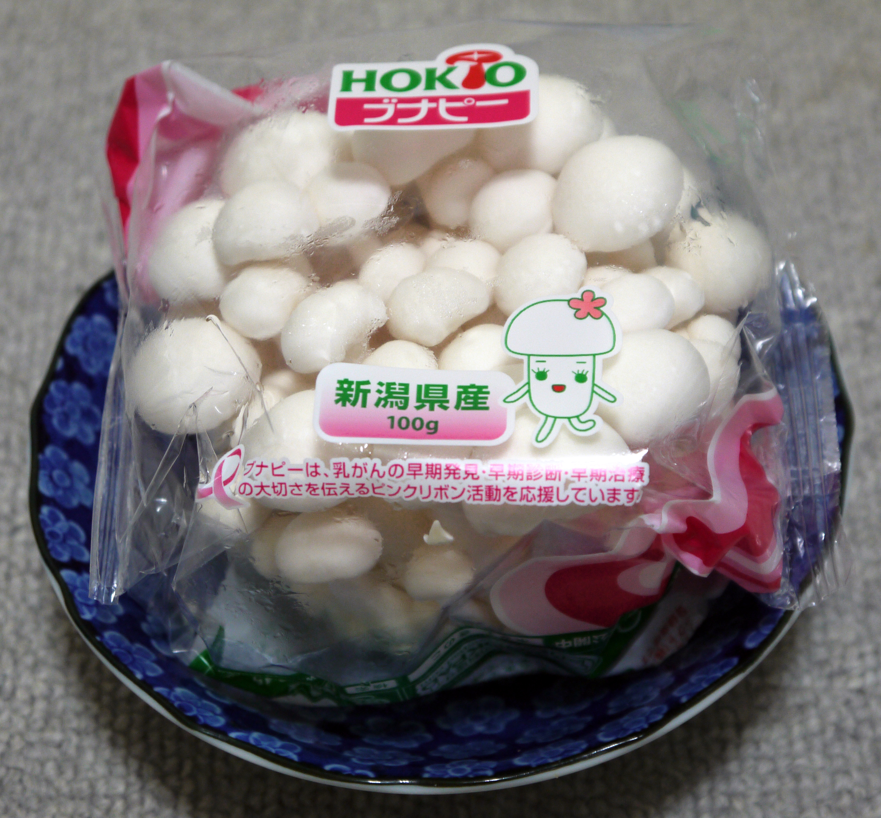 Japanese Hokto Bunapie